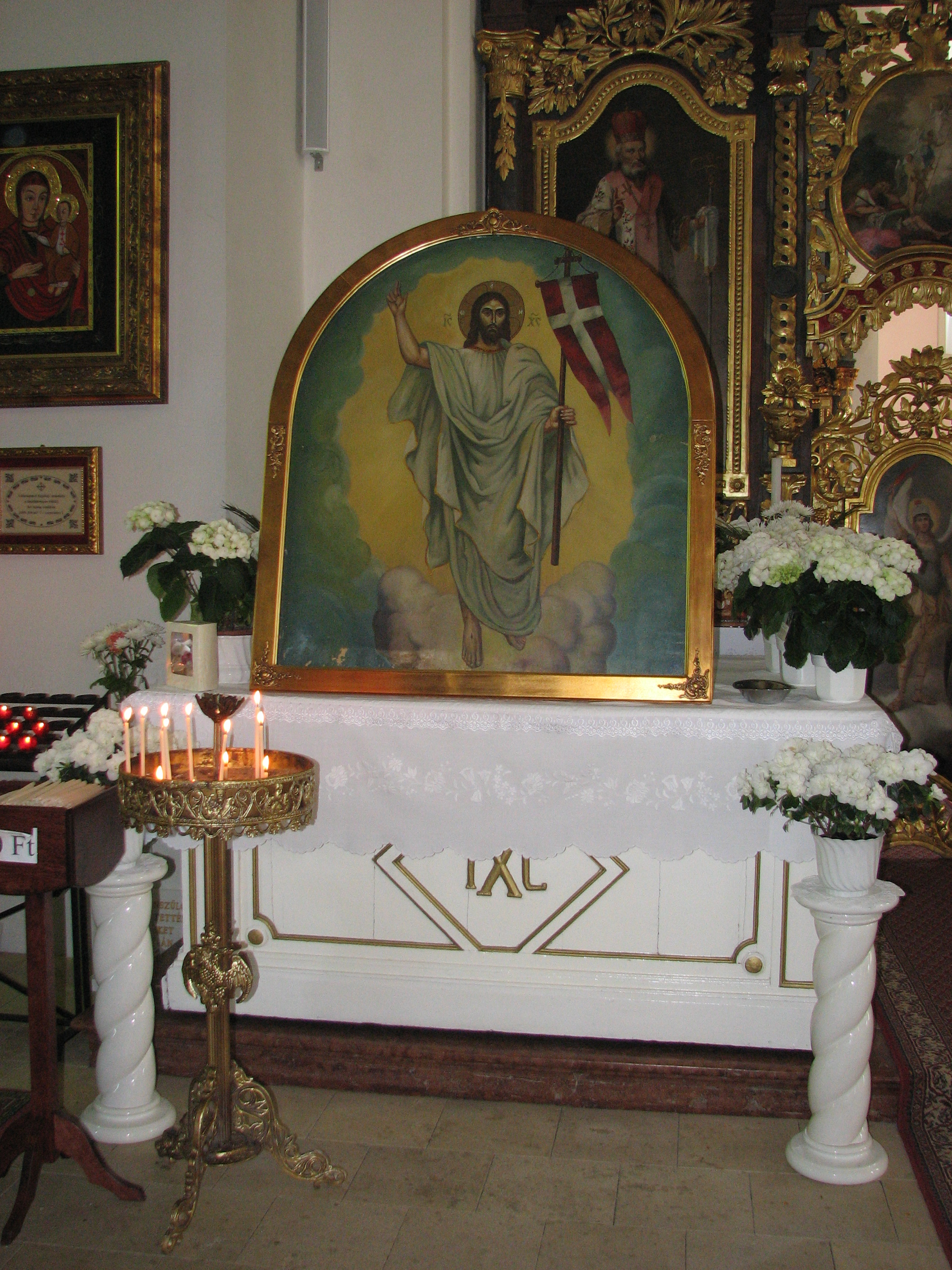 The picture depicts the symbolic Tomb of Christ during Easter celebrations in the Greek Catholic Cathedral of Hajdúdorog, Hungary. According to the tradition a white altar is erected in front of the iconostasis that symbolizes the rock-tomb of Jesus Christ. The painting on the altar symbolizes the Resurrection of Jesus. Jesus holds a flag in his hand that is red with a white cross on it. The flag itself is really similar to the flag of the order of Malta or to the Danish flag but actually it is an ancient symbol from the time of Constantine the Great and it refers to Christ's victory over death. The tomb is erected on Good Friday and it can be seen in the cathedral till Pentecost. During the Easter celebrations in the cathedral (from Good Friday to Easter Tuesday) the tomb is guarded by the so-called Soldiers of Christ; unmarried, volunteer men from the town.